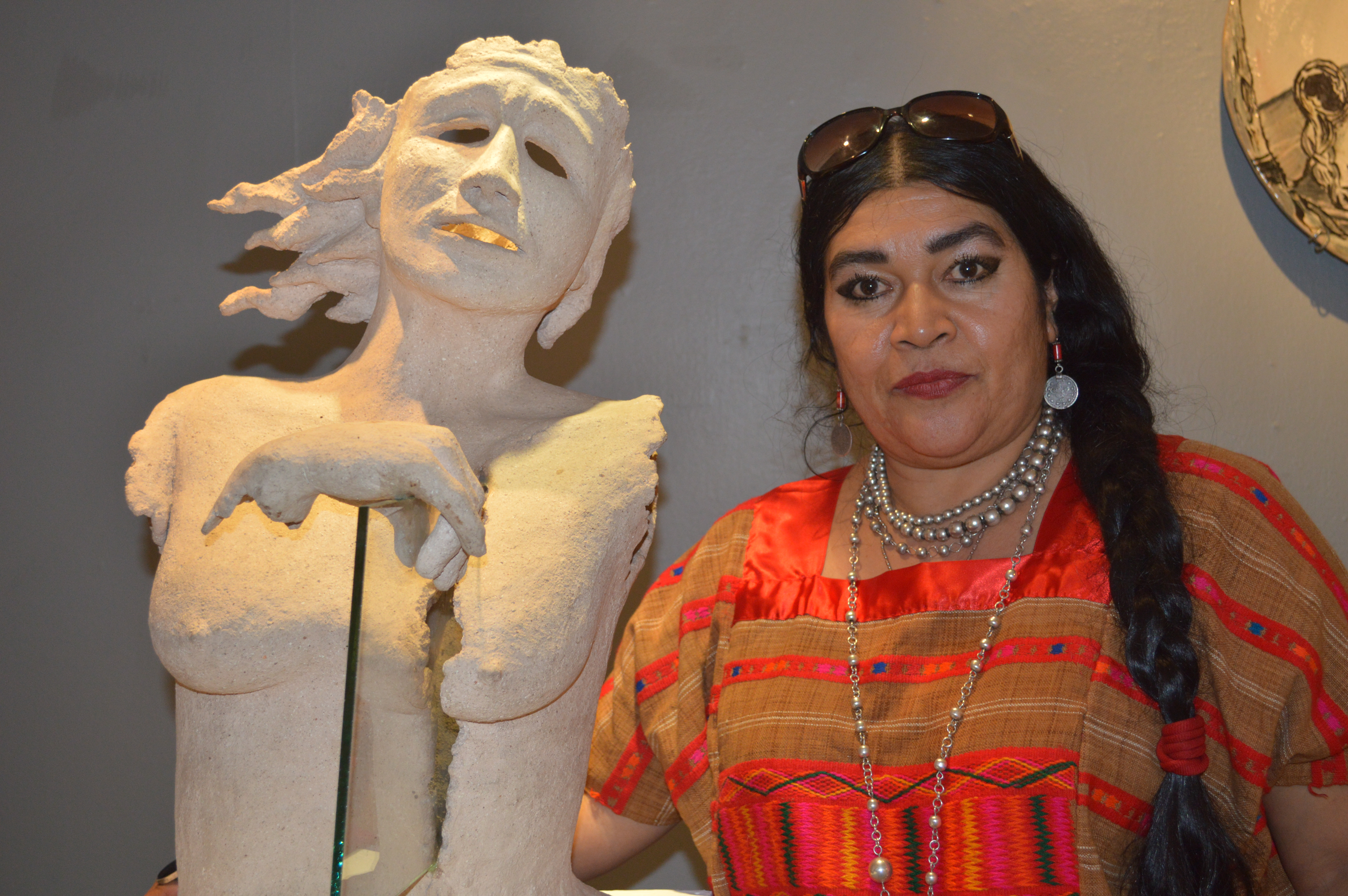 Melo and one of her works at the Poesía para la Vida of Deyanira África Melo at the Salon de la Plastica Mexicana